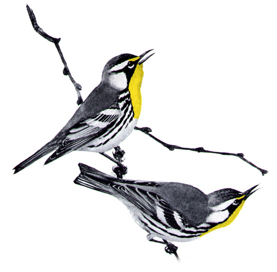 Yellow-throated Warbler, Dendroica dominica, male (upper) and female (lower), offset printing after painting (watercolor or acrylic?). Composition altered from original--cropped.